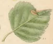 Stainton’s Natural History of the Tineina (1855–1873): Phyllonorycter ulmifoliella mined birch leaf